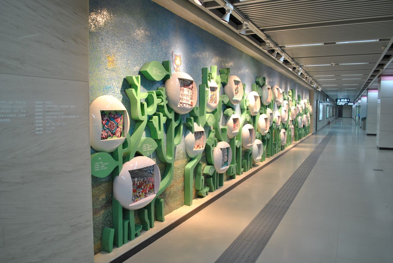 Zhongshan Park Station